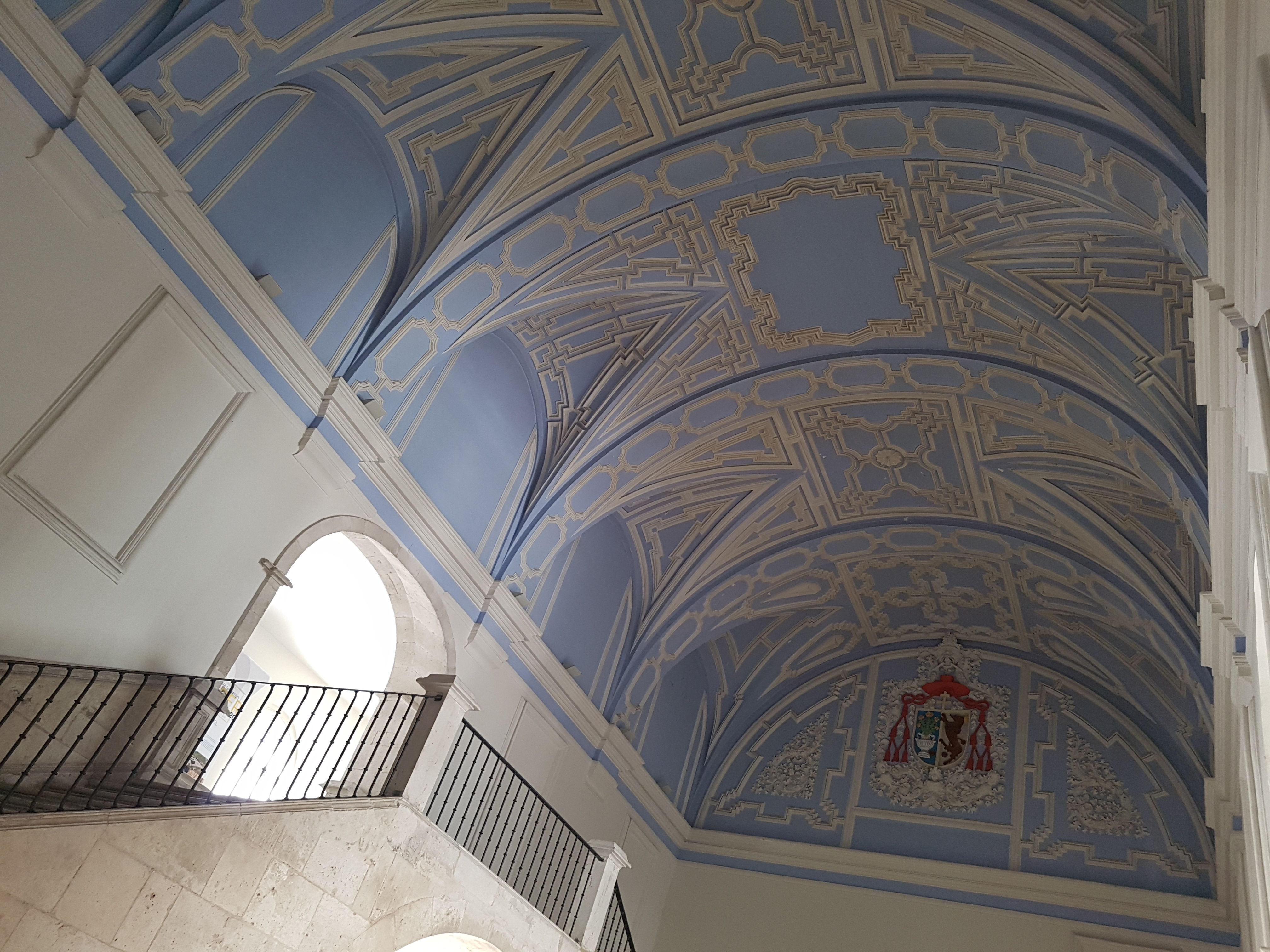 Principal Stairs of the Monastery nuestra Señora del Prado in Valladolid, Spain.